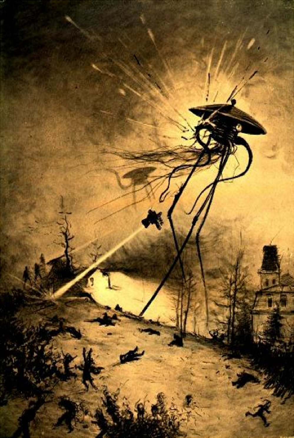 Illustration by Alvim Corréa, from the 1906 French edition of H.G. Wells' "War of the Worlds".